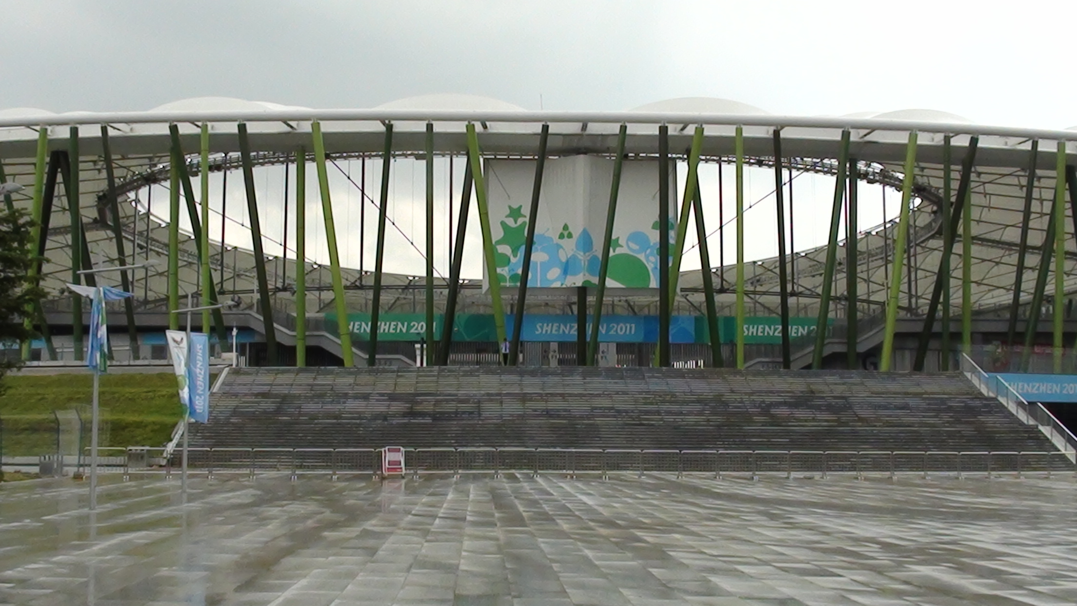 Bao'an Stadium of Shenzhen,China